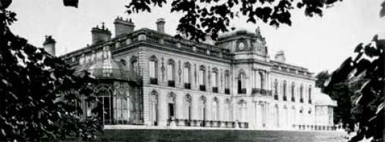 Chateau de Beauregard, La Celle-Saint- Cloud, France, pictured in 1872. Do not exist anymore